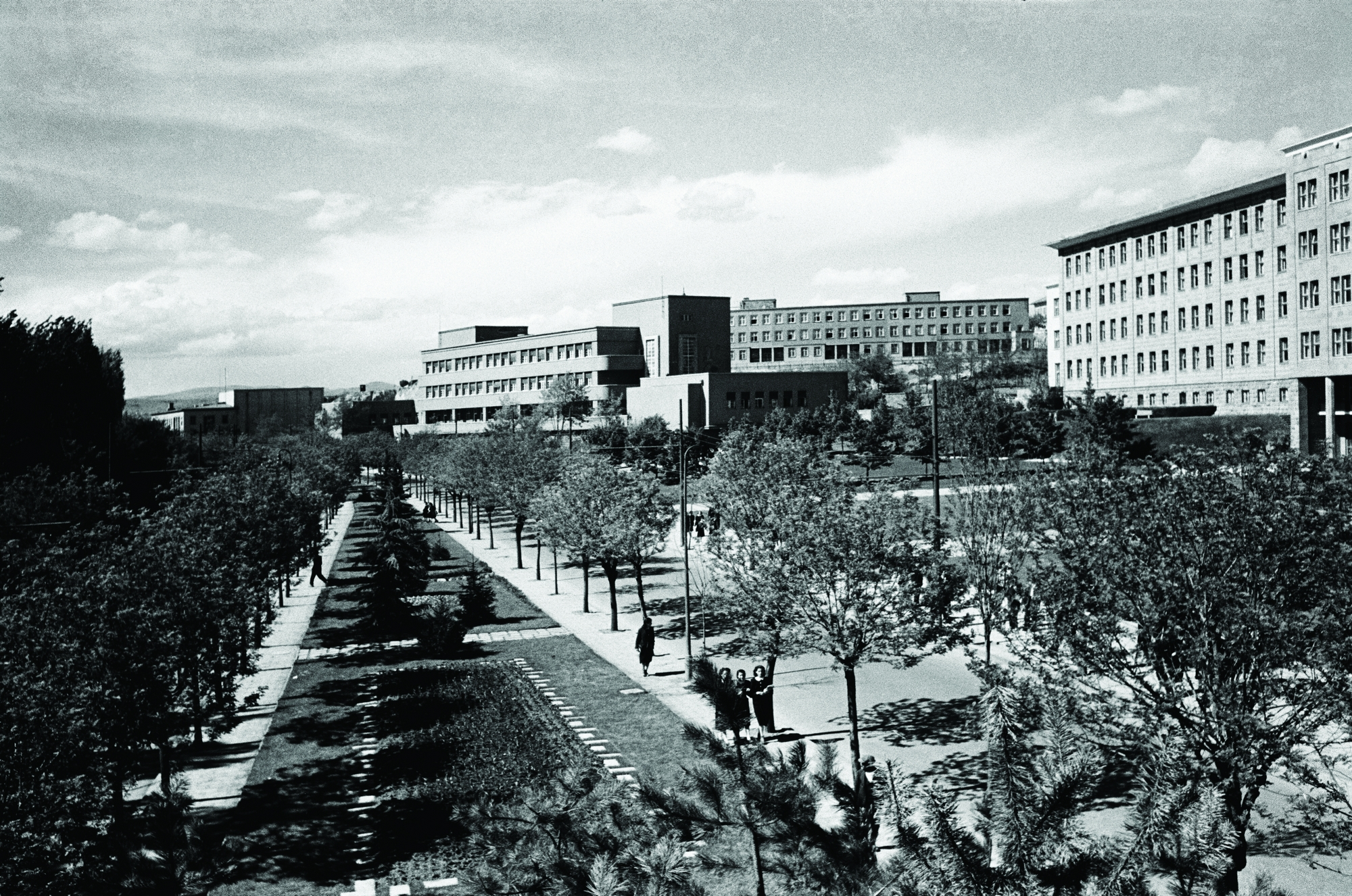 The other side of the Atatürk Boulevard can be seen from the Yenişehir (The New City). Female students are walking towards the Yenişehir. The refuge island of the Boulevard harbours the flowers, acacias, pines and horse-chestnuts. Train bridge is not visible. But we can see the Faculty of Language, History and Geography by renowned German architect Bruno Taut, İsmet Pasha Girls' Institute by Ernst Arnold Egli and the Radio House. Atatürk Bulvarı, Dil ve Tarih-Coğrafya Fakültesi, İsmet Paşa Kız Enstitüsü, 1940’lı yıllar. Atatürk Bulvarı, Dil ve Tarih-Coğrafya Fakültesi, İsmet Paşa Kız Enstitüsü, 1940’lı yıllar. Atatürk Bulvarı Yenişehir’den aksi yönü görünüyor. Kız öğrenciler Yenişehir’e doğru yürüyorlar. Bulvar’ın orta kaldırımında çiçek tarhları, akasya, at kestanesi, iğne, çam ağaçları gözleri okşuyor. Tren köprüsü gözükmüyor, ama dünyaca ünlü Alman mimar Bruno Taut’un Dil ve Tarih-Coğrafya Fakültesi, Ernst Arnold Egli’nin İsmet Paşa Kız Enstitüsü ile Kız Lisesi, Radyoevi oradalar. Başkentin Kız Enstitüsü, örnek bir okul. Gazeteci Server Rifat [İskit] Bey, 1934 yılında bir gün ziyaret etmiş. Yedigün’ün tiryakilerini bilgilendirecek. Müdür Hasan Lûtfi Bey ile birlikte derslikleri dolaşıyor. Odalara girip çıkıyor, gördüklerini yazıyor. Özetle, mutfak dersinde konu, kaç çeşit patates yemeği vardır, omlet sufle nasıl yapılır? Sonra, çiçek ve bahçe atölyesinde el işi çiçekler yapılıyor, resim atölyesinde resim. Pastacılık muallimi Madam Hoyizler ile görüşüyor. Onun yanından ayrılıp ev idaresi dersini izliyor. Nakış ve dikiş, şapka atölyelerine gidiyor.